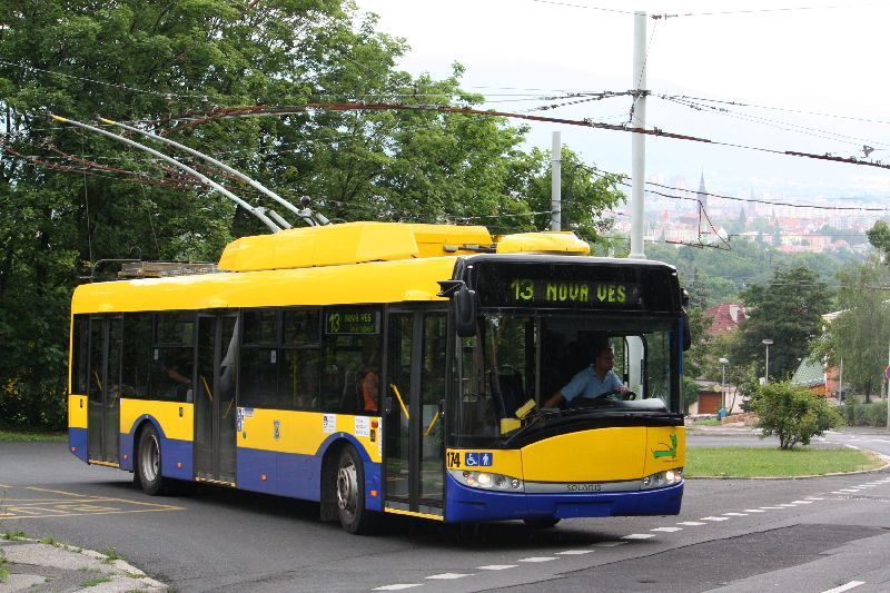 A Solaris Trollino 12 trolleybus in Teplice